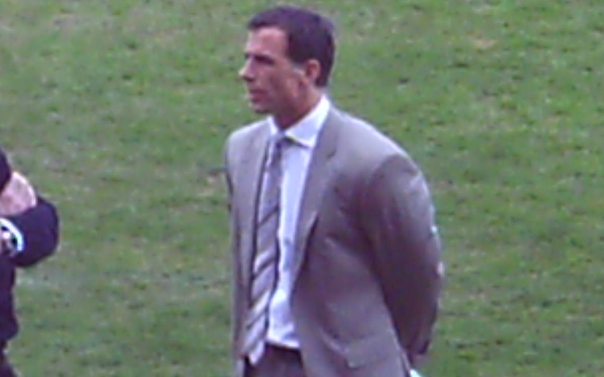 Phil Clarke at Harlequins vs St Helens in the European Super League.